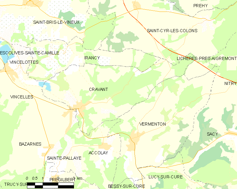 Map of French municipality Cravant